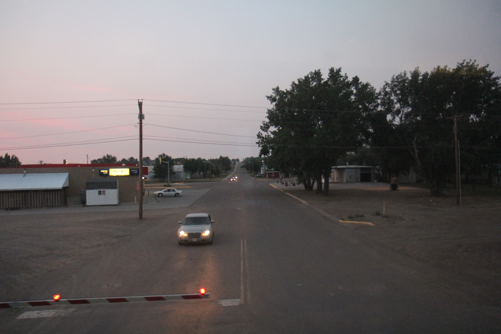 A rail crossing in Wolf Point, Montana from the Empire Builder.